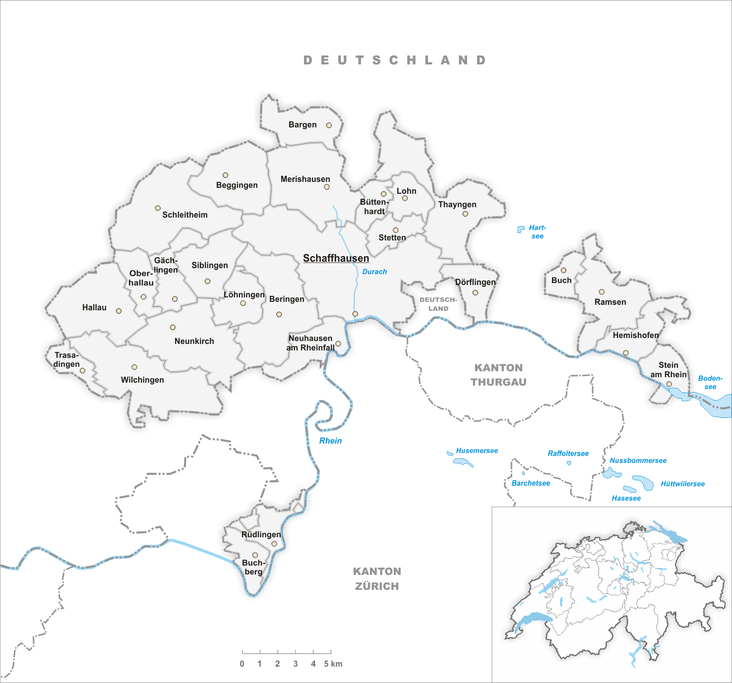 Municipalities in the canton of Schaffhausen to 2013